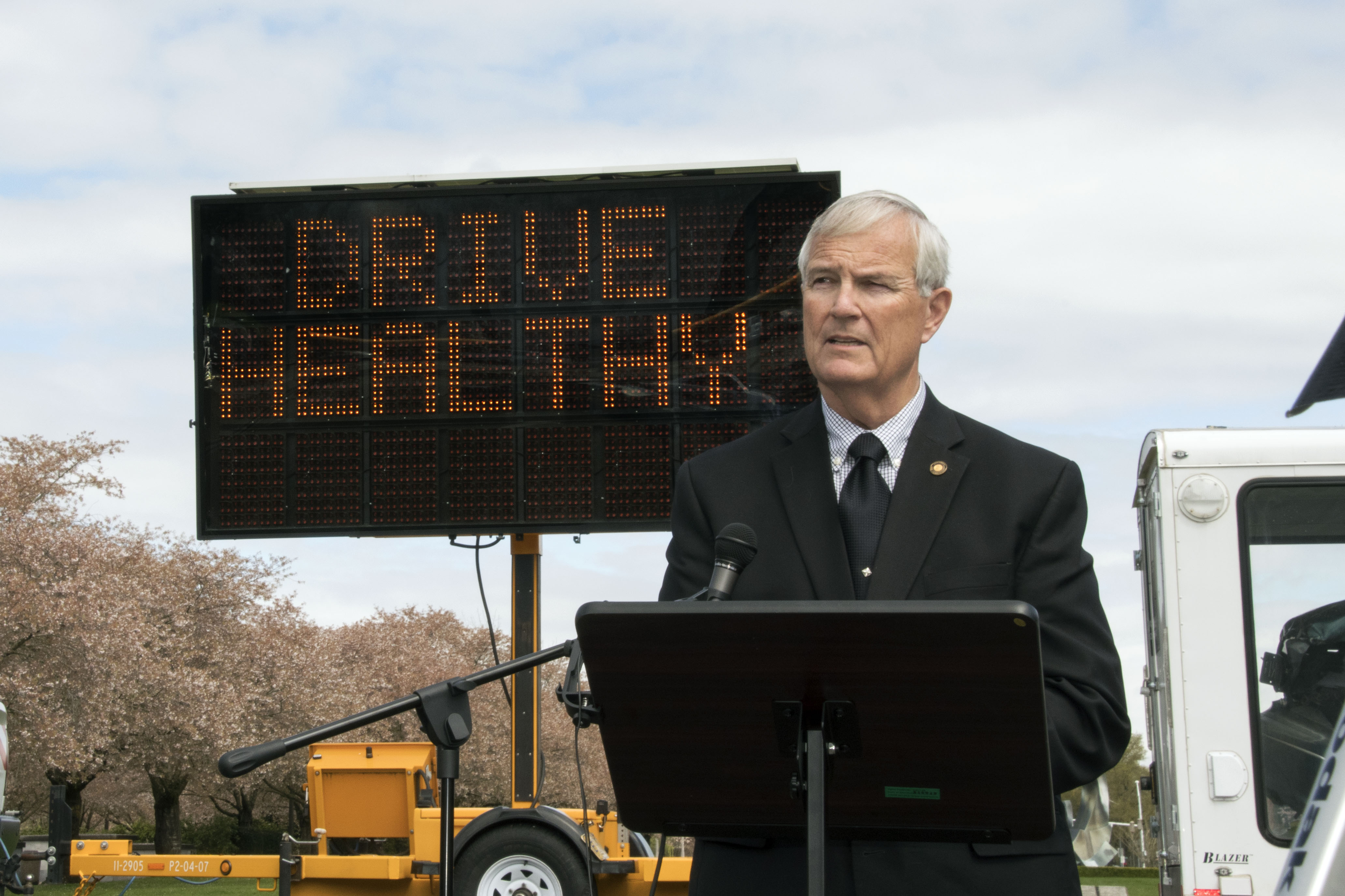 Representative Olson stands in front of the social media hashtag, Drive Healthy.